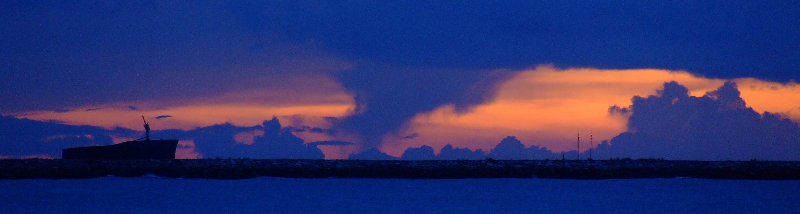 Mara Hope